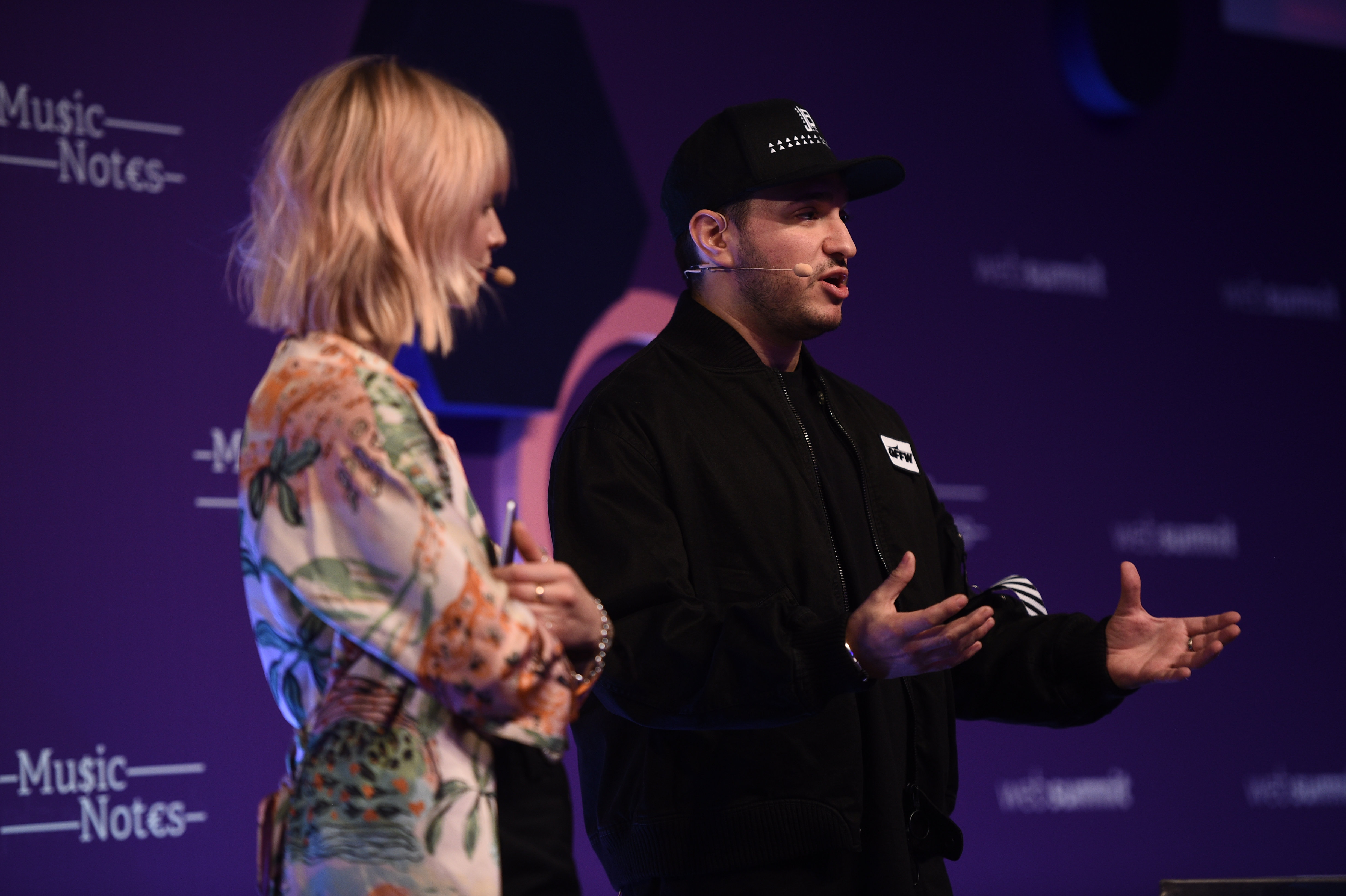 8 November 2018; B.Traits Brianna Price, Music Producer, DJ, Broadcaster, In.Toto & Paciphonic, and Jonas Blue, Musician, on MusicNotes Stage during day three of Web Summit 2018 at the Altice Arena in Lisbon, Portugal. Photo by David Fitzgerald/Web Summit via Sportsfile